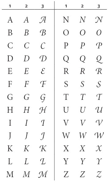 Minion Pro (21 pt) in capital letters in regular (1), italic (2) and swash (3) style. The image itself is not under copyright, but the font itself is.